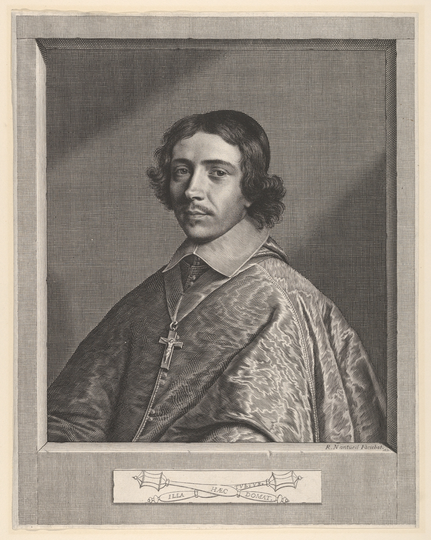 Print; Prints